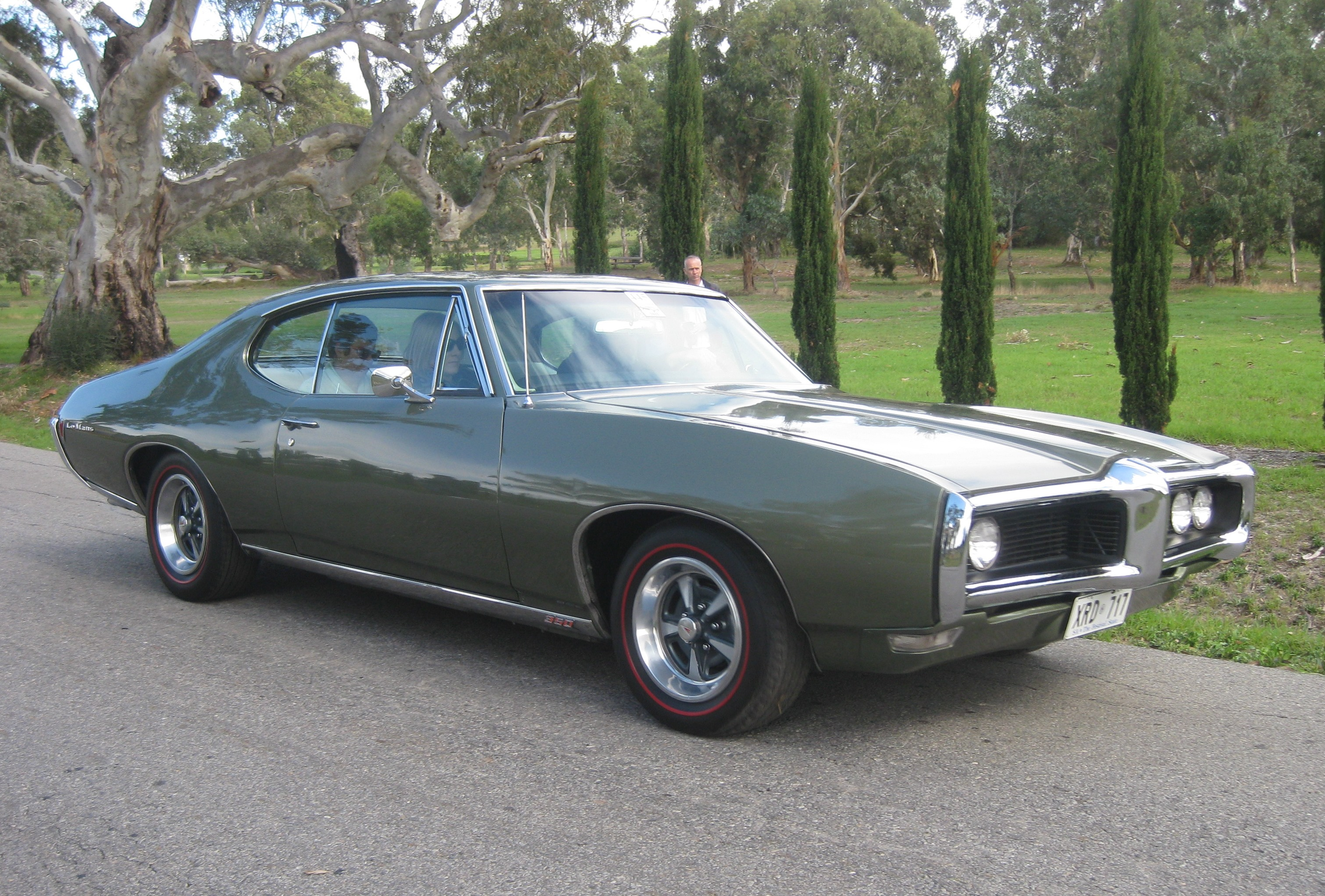 1968 Pontiac Le Mans Hardtop Coupe